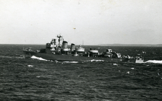 The Swedish destroyer HMS Kalmar.